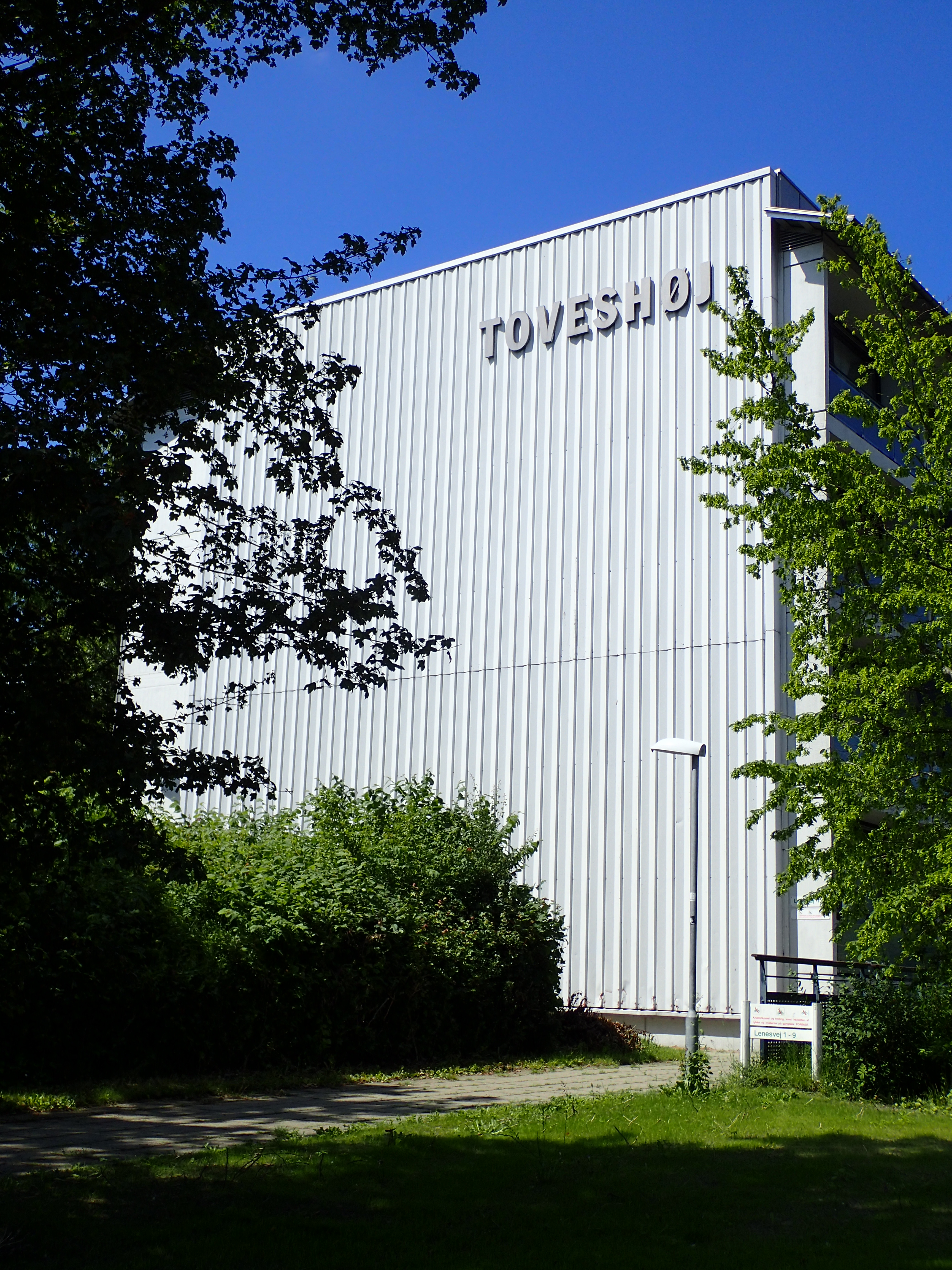 Toveshøj